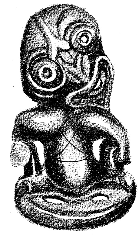 Drawing of a Hei-tiki neck pendant, Māori, New Zealand, 19th century